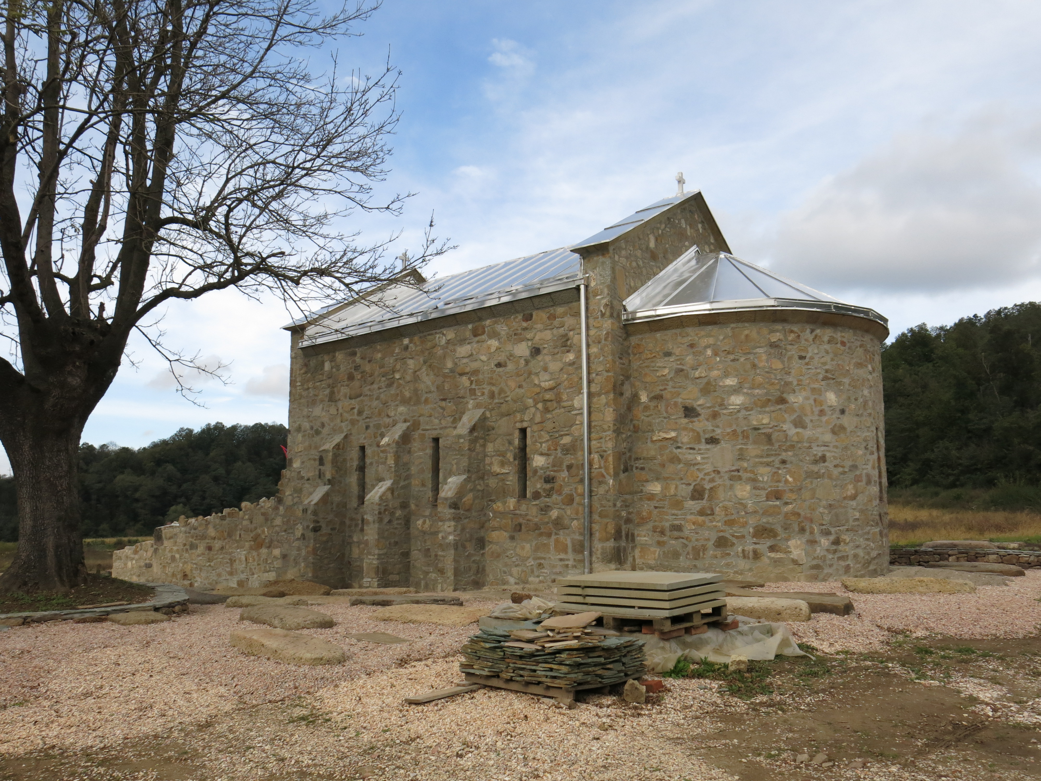 Dići, Church of Saint John the Baptist with necropolis